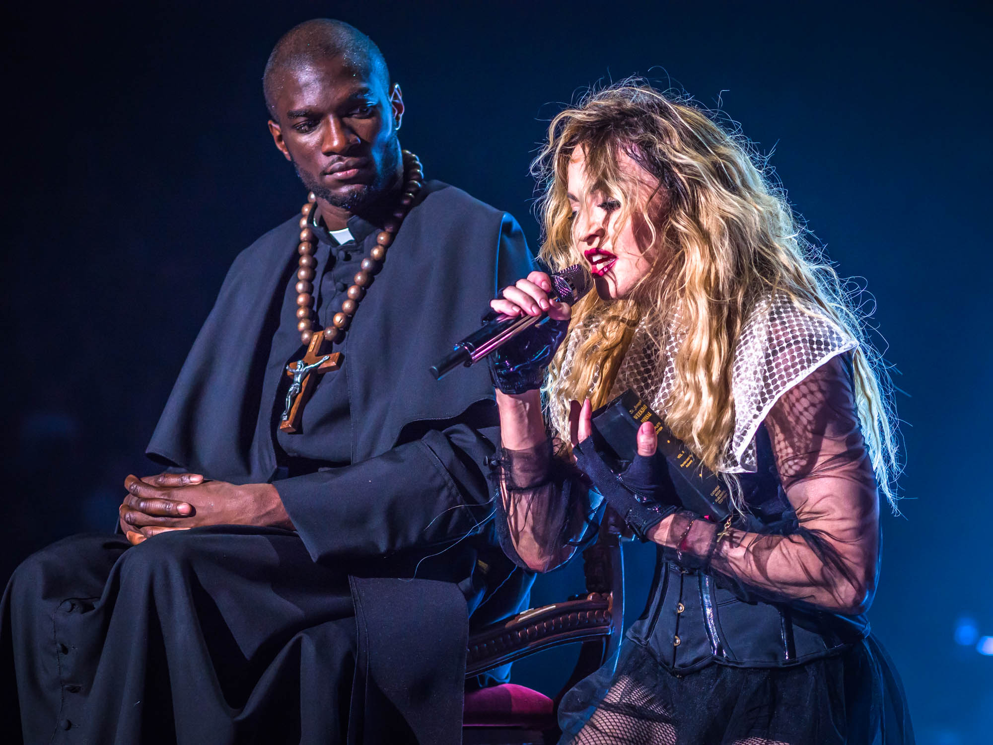 Rebel Heart Tour